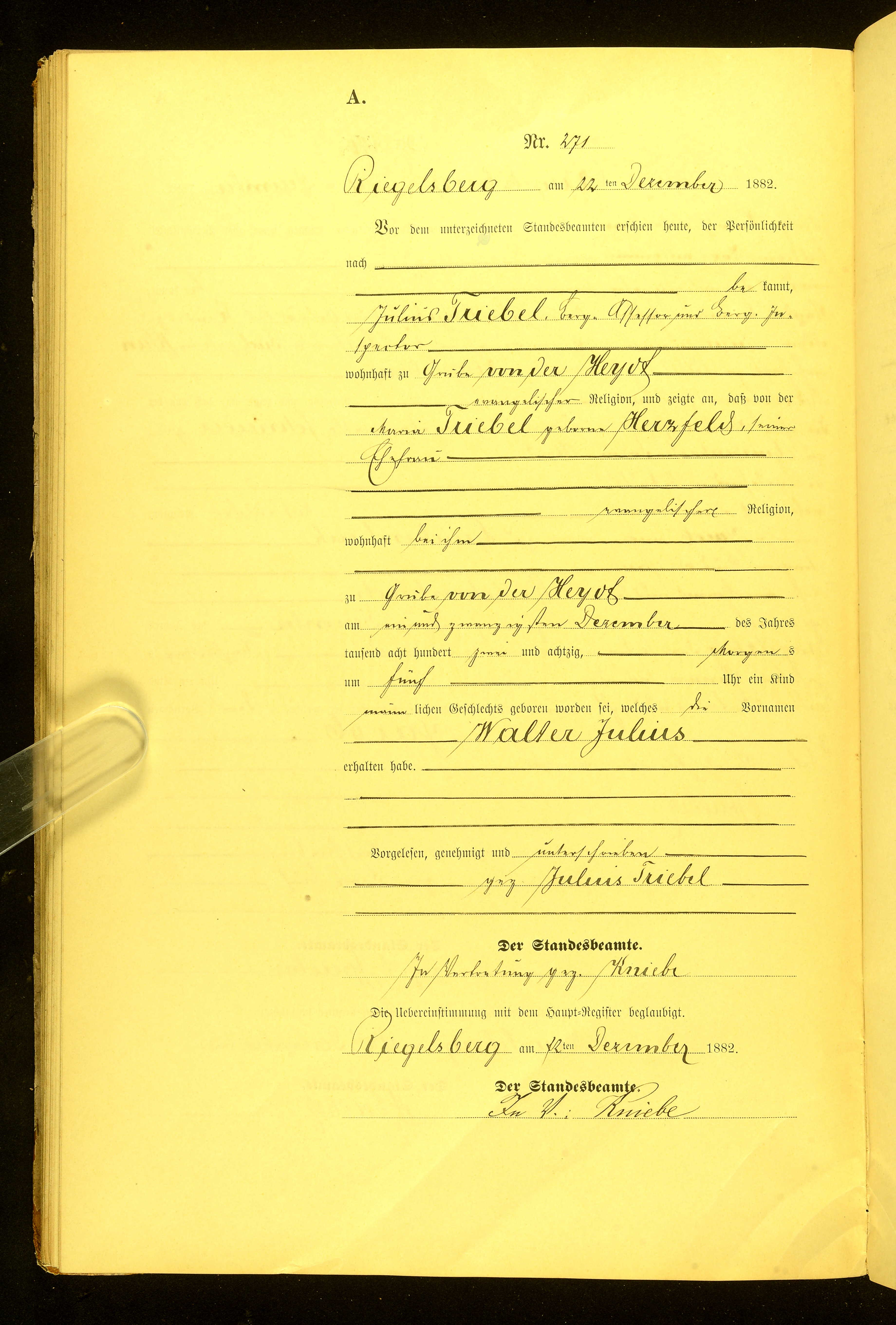 Birth certificate for the lawyer Walter Triebel, counsel for the defence during the Kurfürstendamm Trial of 191/1932.